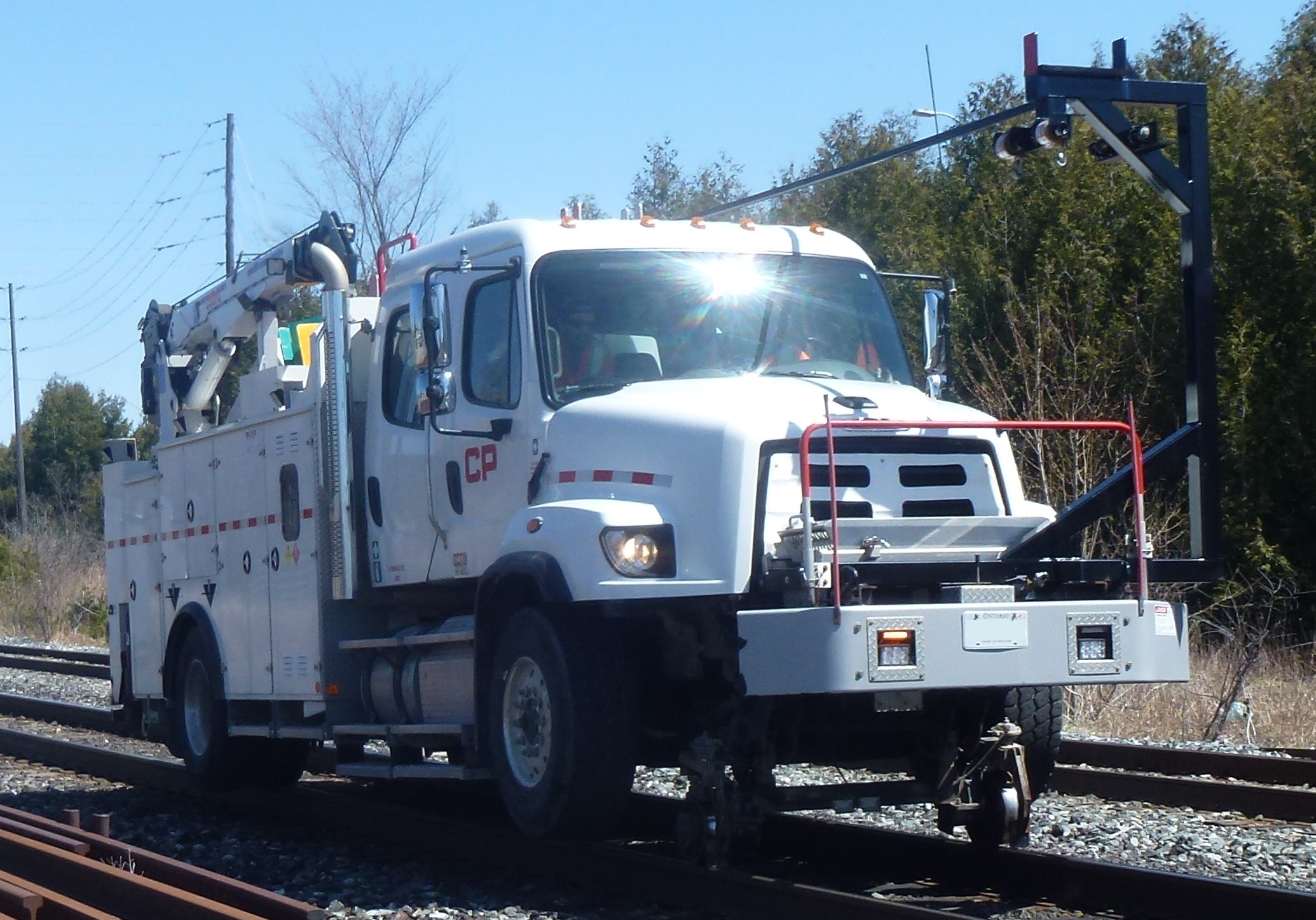 A road-rail truck passes through Bolton, Ontario, on the Canadian Pacific line on 30 April 2018. Licence obliterated by uploader.